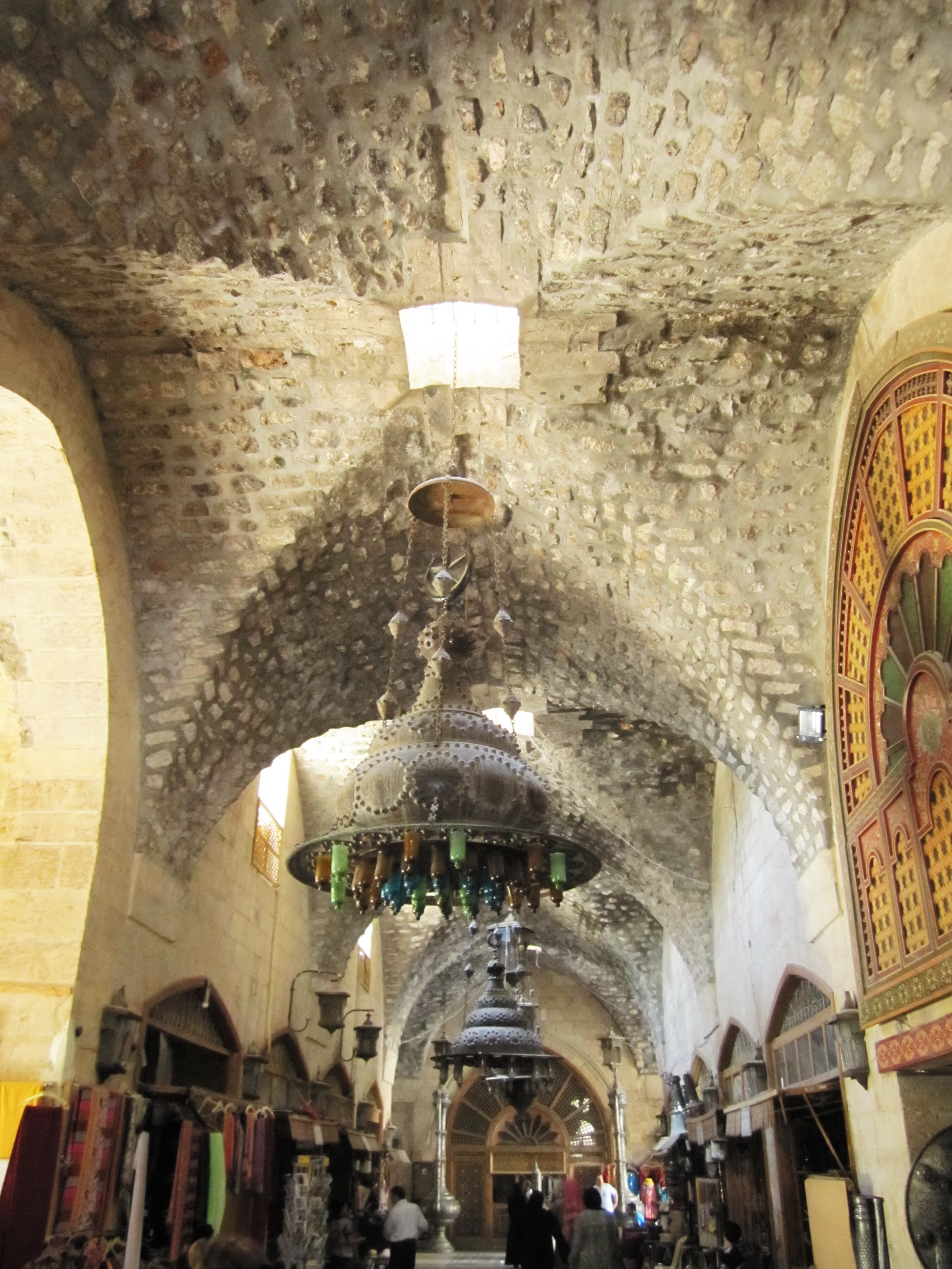 Khan Al-Shuneh in Aleppo